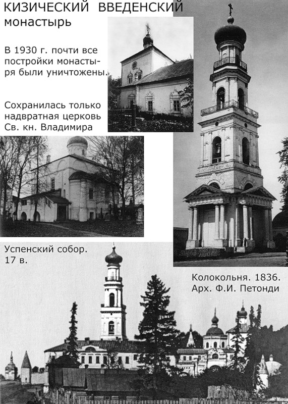 Kizichesky monastery in Kazan